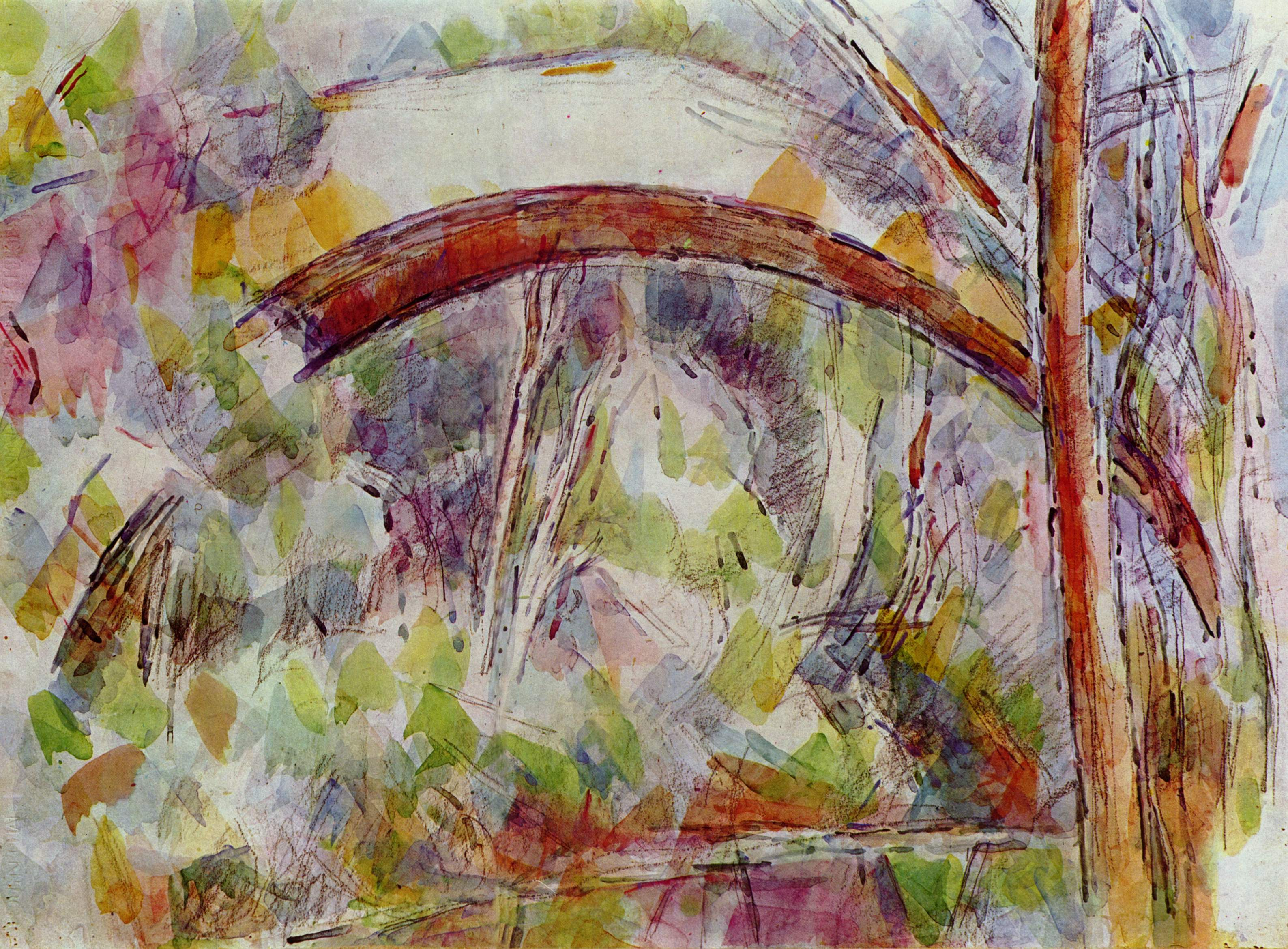 The Bridge of Trois-sautets (le Pont Des Trois-sautets)